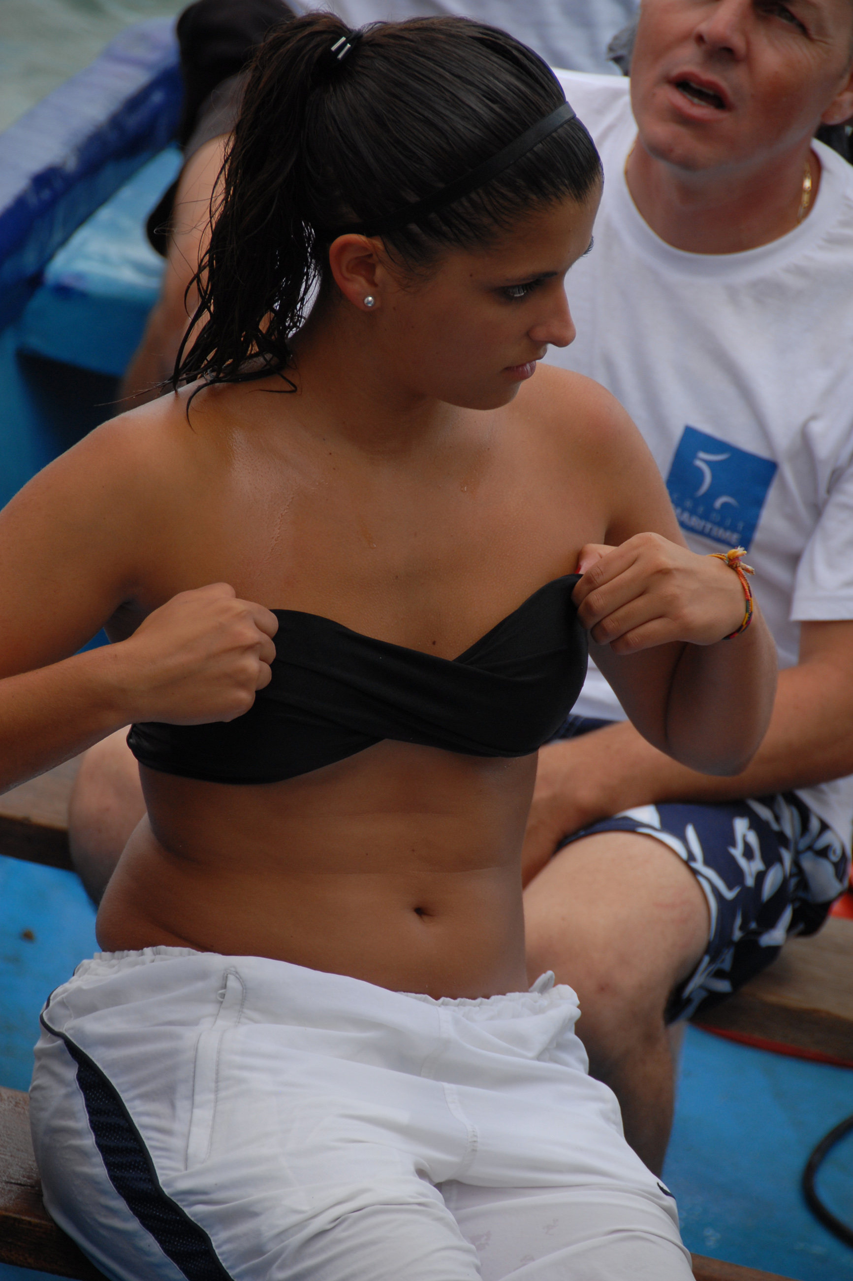 Young woman in a black bikini.